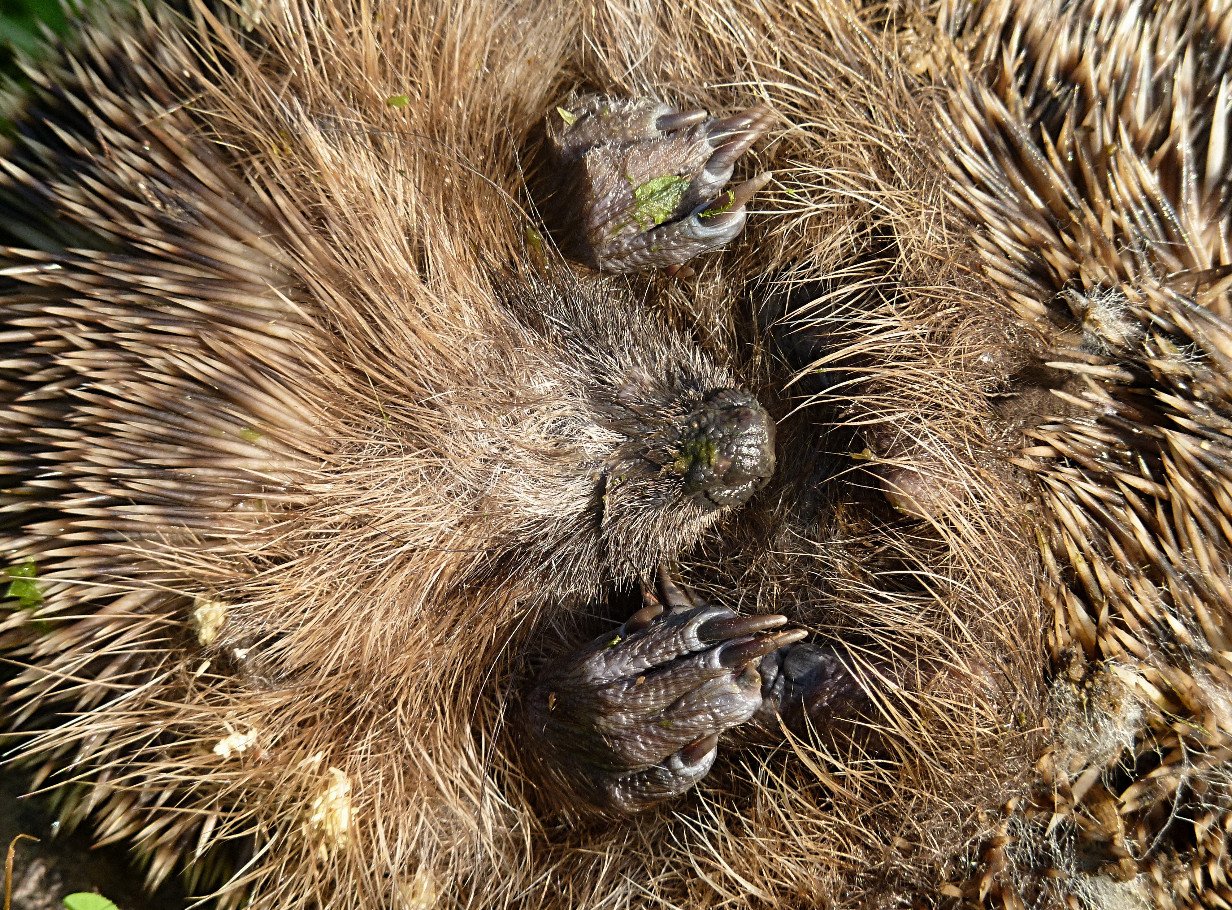 Hedgehog, dead or in hibernation ? Picture taken in Belgium.